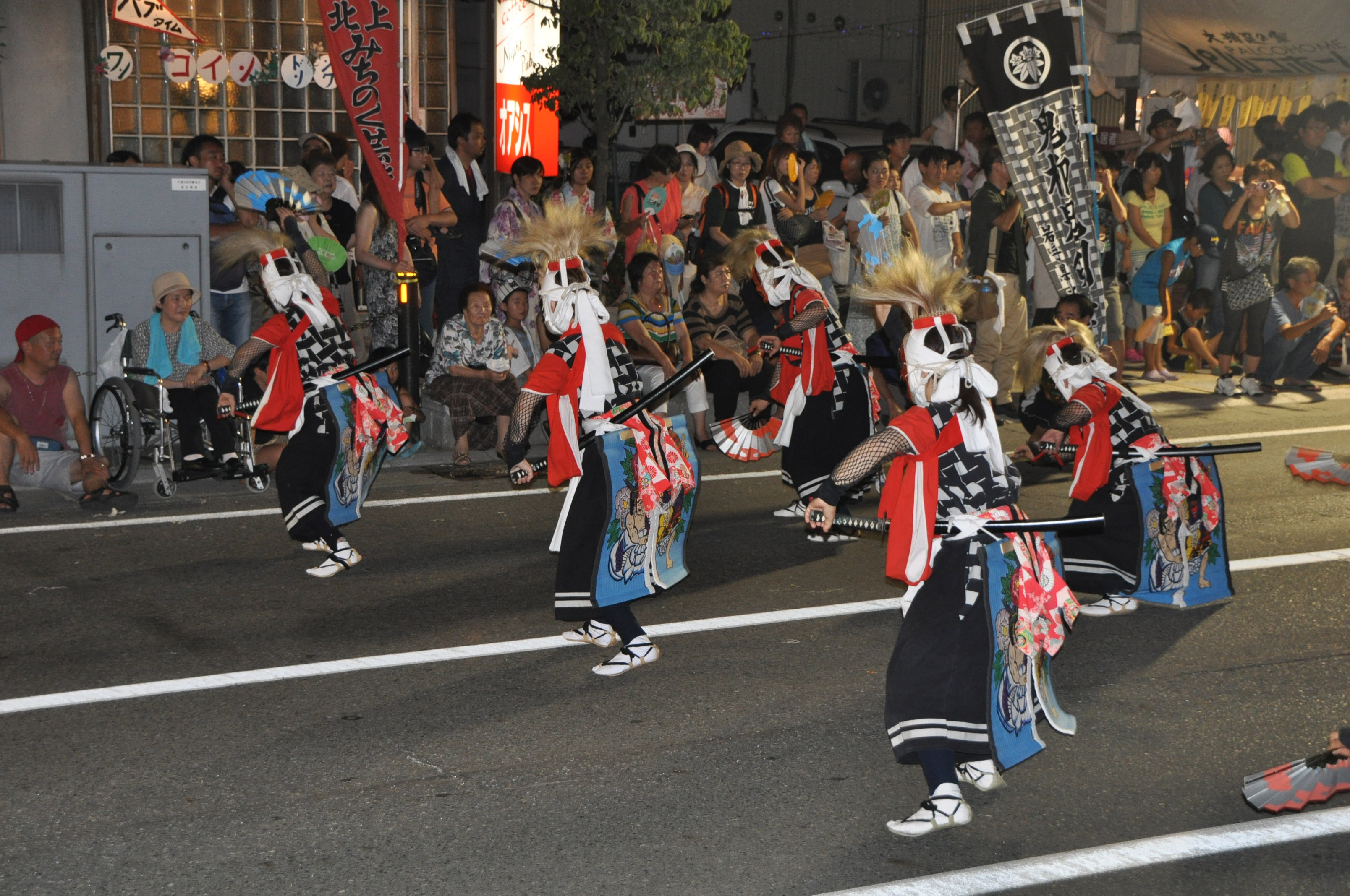 Oni Kenbai (鬼剣舞) 1 (Adults), Kitakami, Iwate